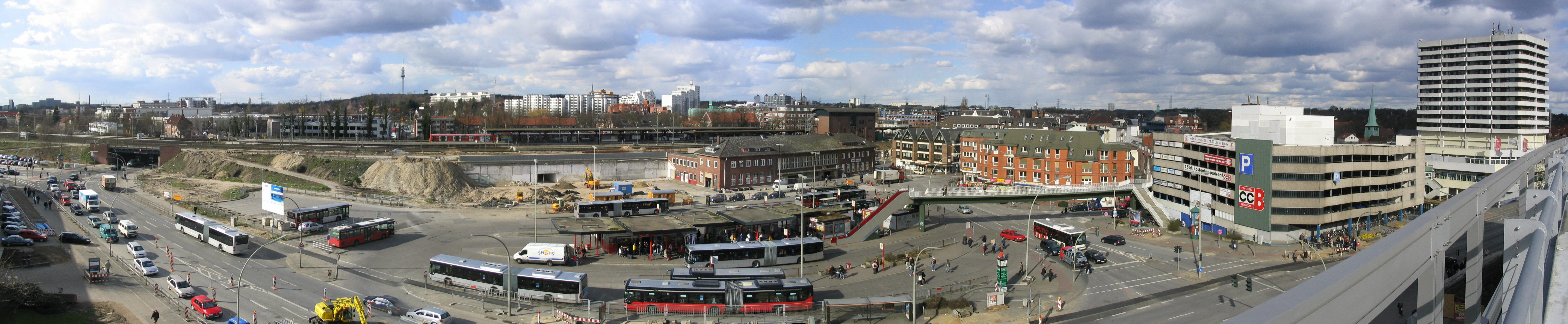 Railway station Hamburg Bergedorf - Start of remodelling